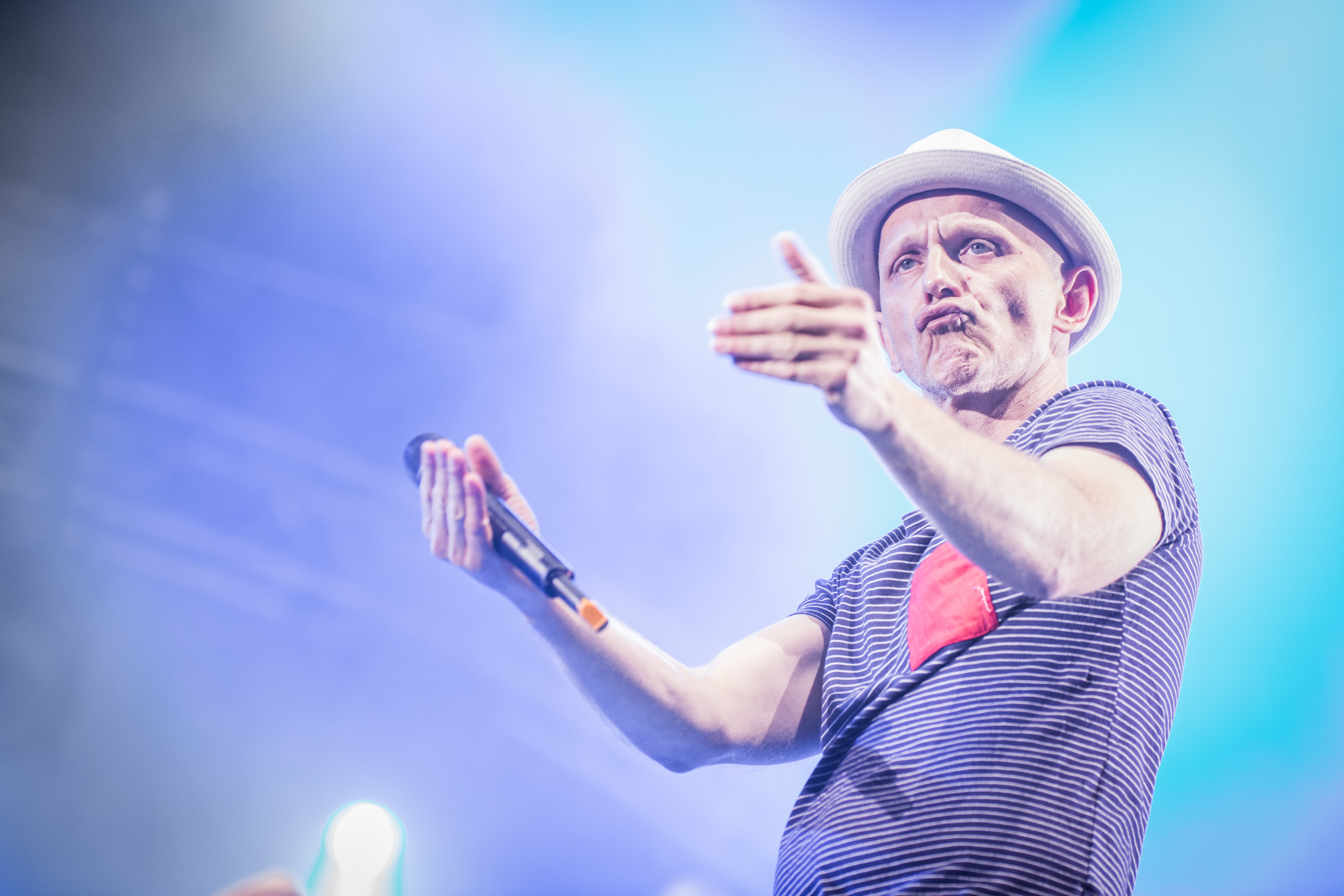 Massilia Sound System (France) at Rio Loco 2015